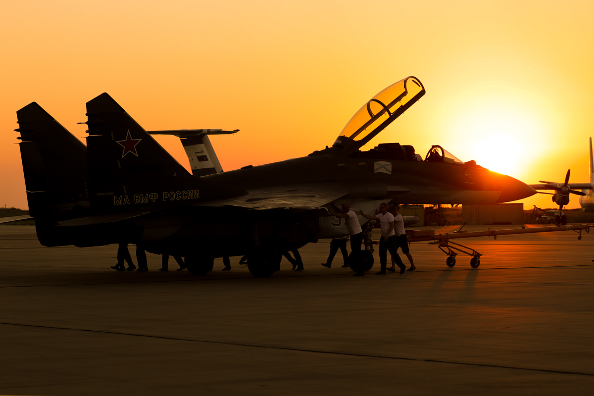 Mikoyan-Gurevich MiG-29K